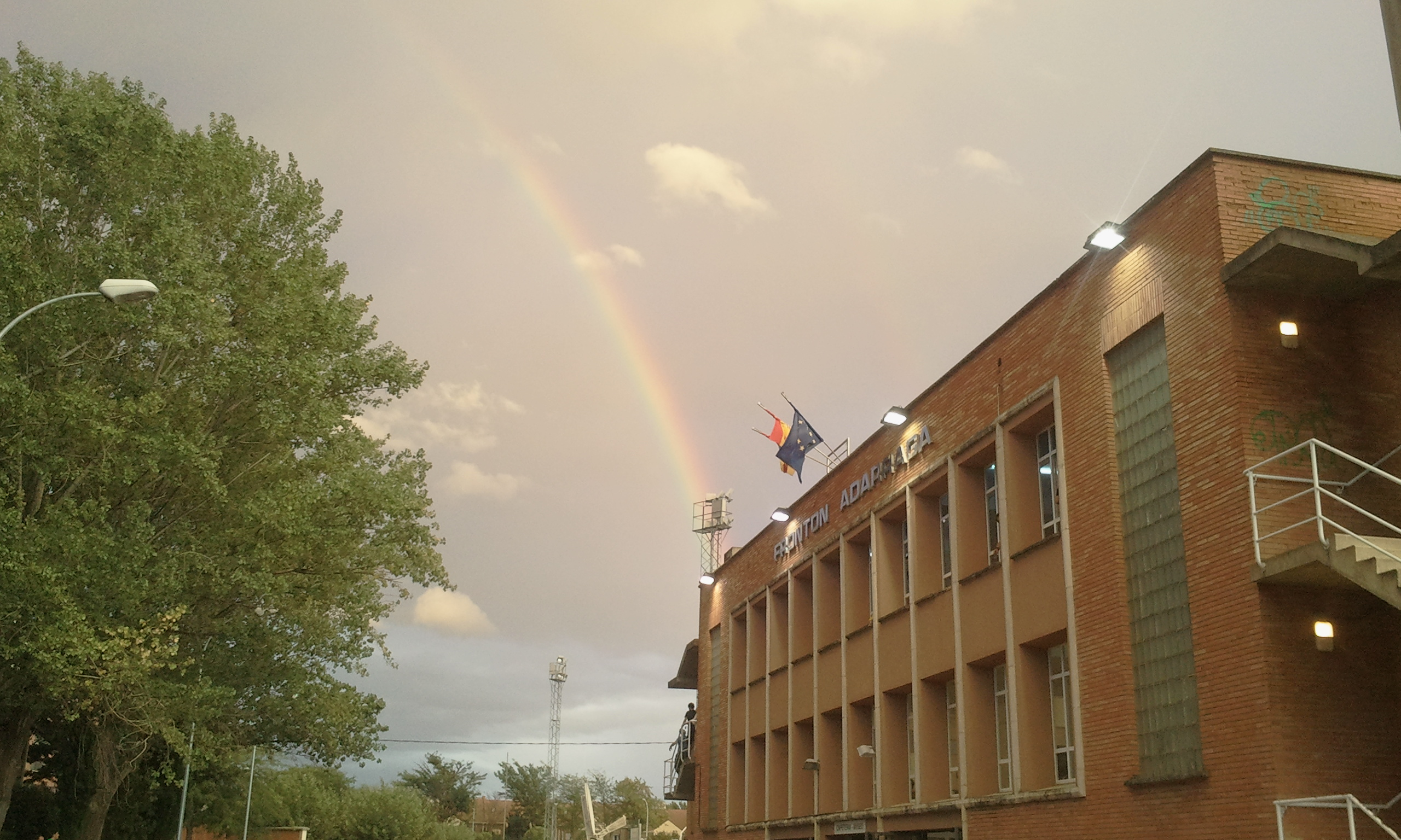 Fronton Adarraga façade, Logroño (La Rioja, Spain)